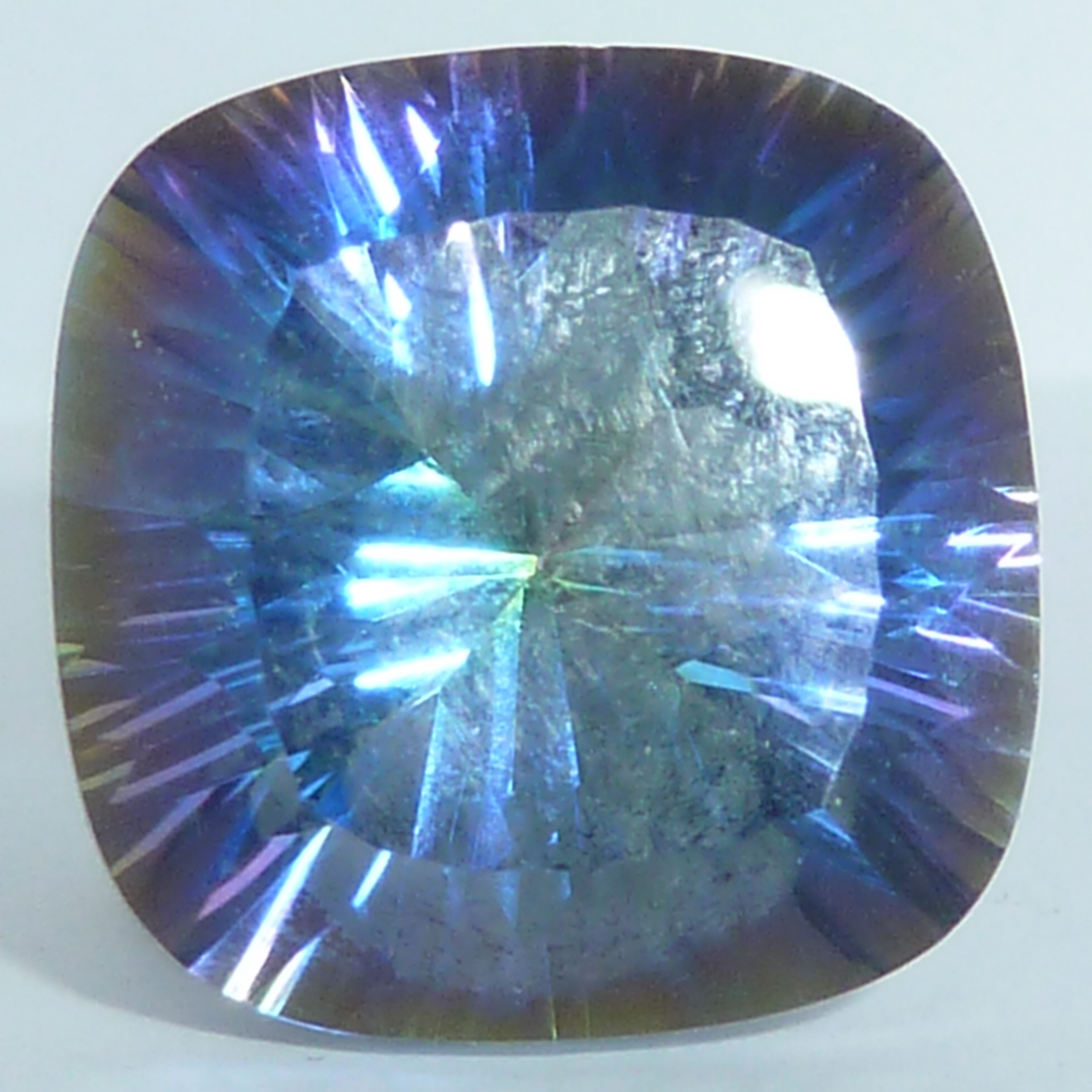 Mystical quartz